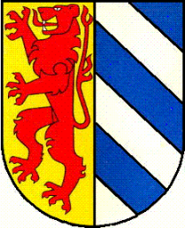 Coat of arms of Eschenz, Canton of Thurgau, SwitzerlandEsperanto: Blazono de Eschenz, Kantono Turgovio, Svislando